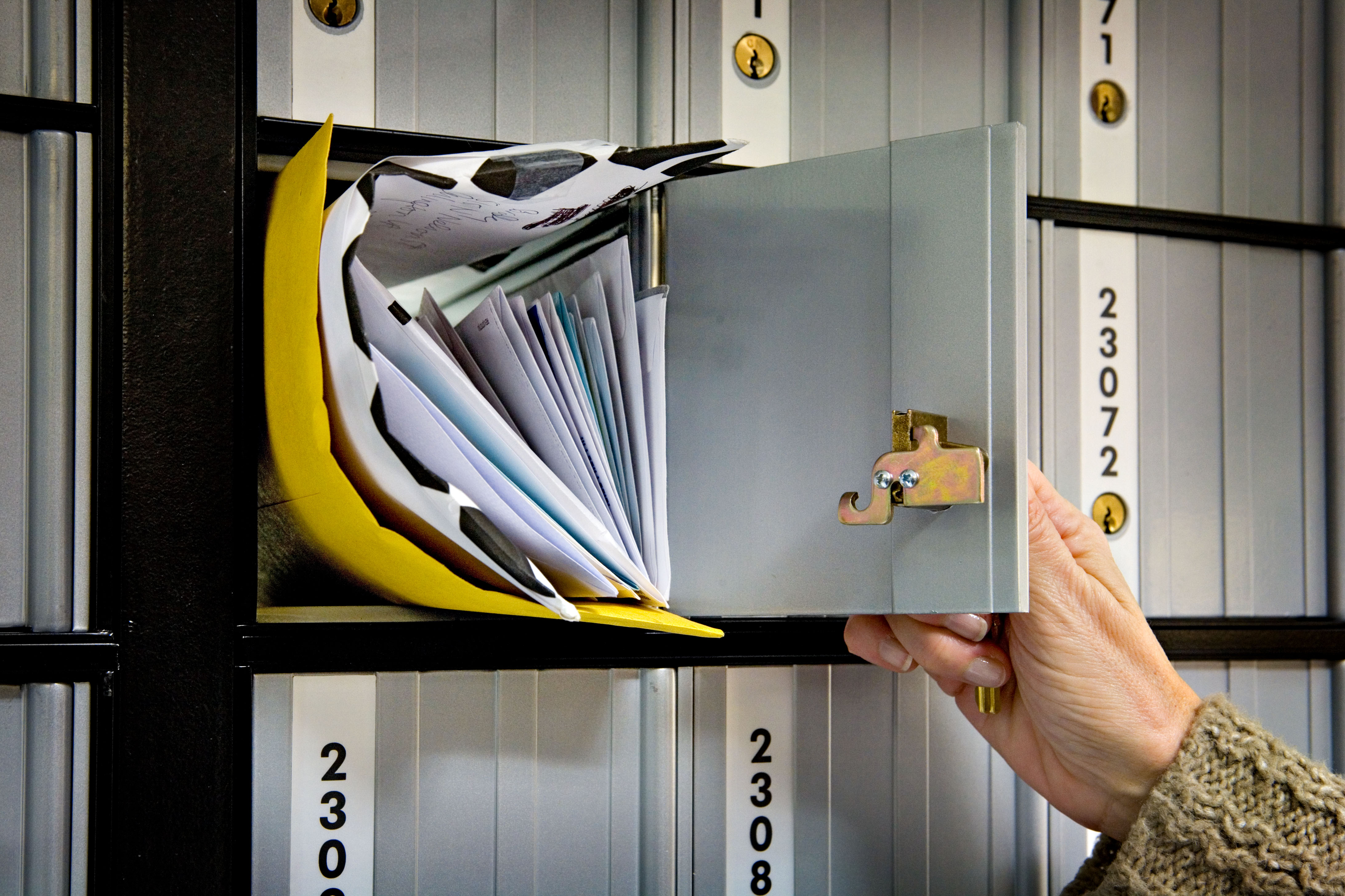 Letters in a post office box in a US post office lobby.